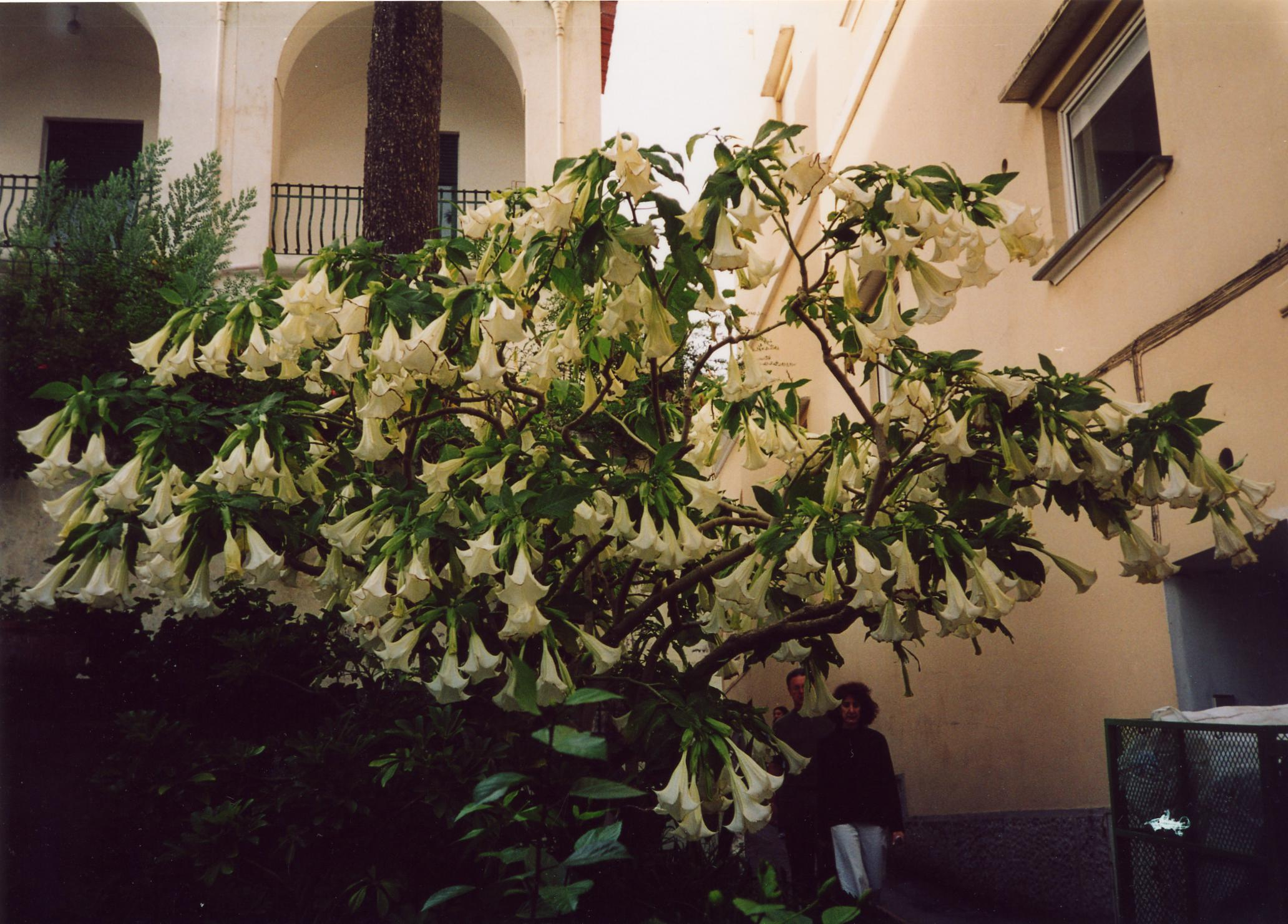 Brugmansia suaveolens tree in Capri, Italy